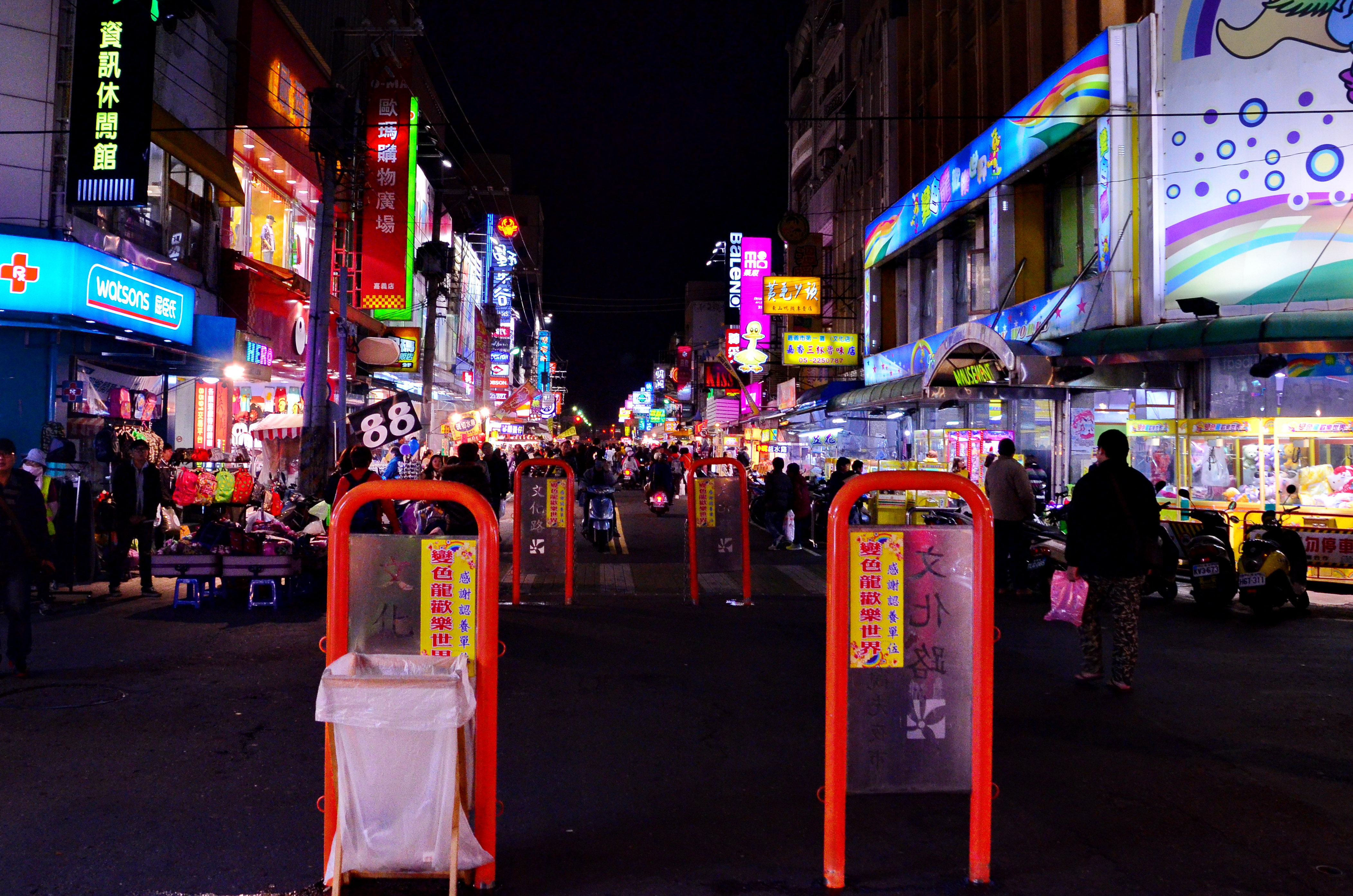 Night market at Wenhua Road, near Lanjing Street, Chiayi City, Taiwan.